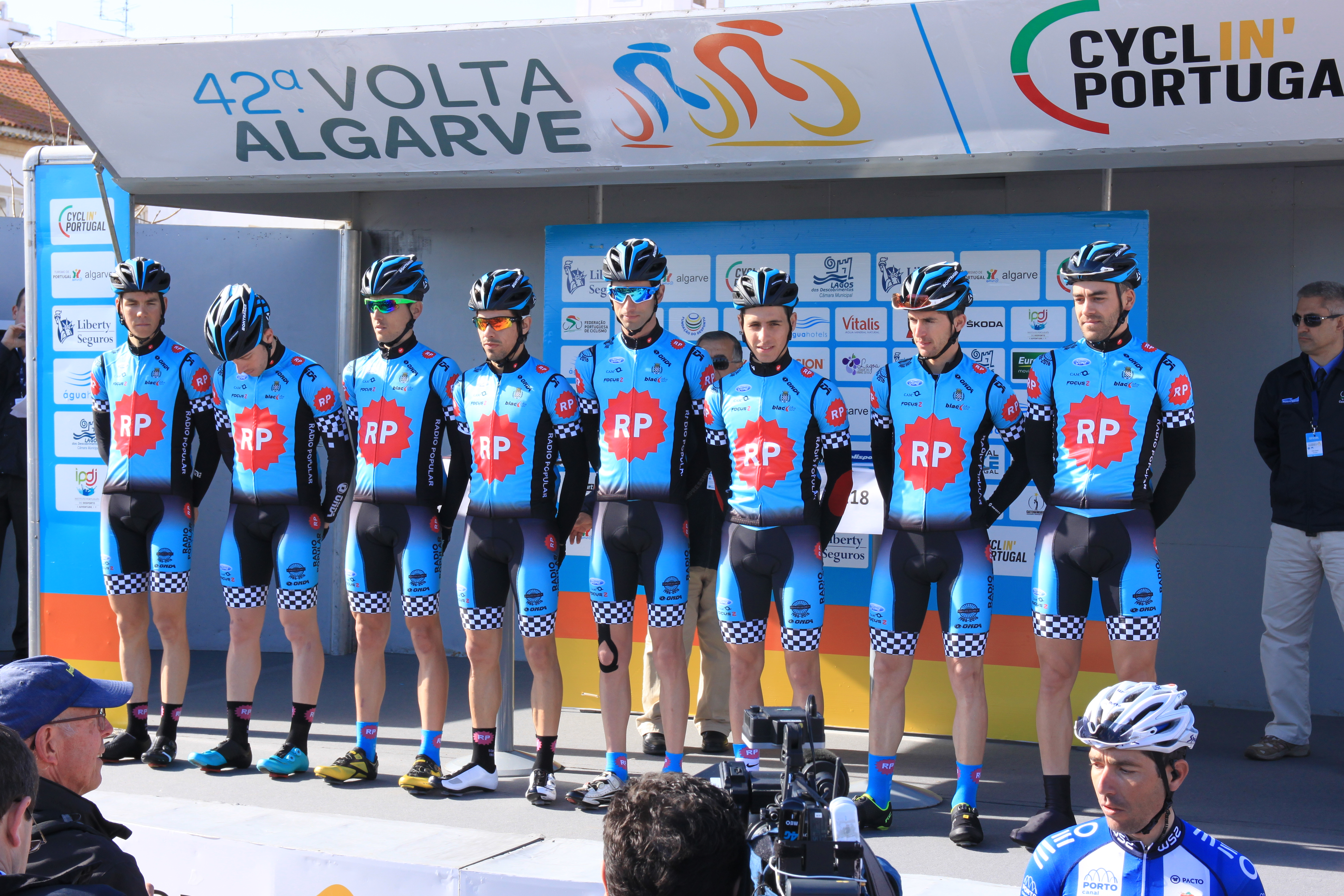 Portugal - Algarve - Lagos - 2016 Volta ao Algarve - Cycle team. Depicted team: Rádio Popular-Boavista